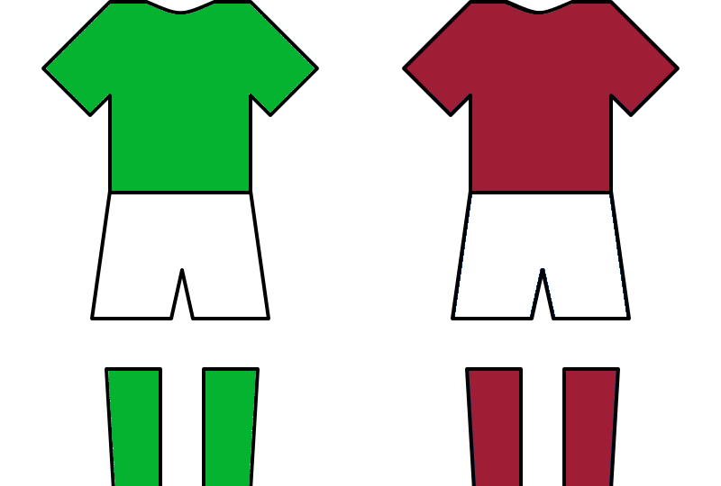 The team colours of Al Ansar FC and Nejmeh SC